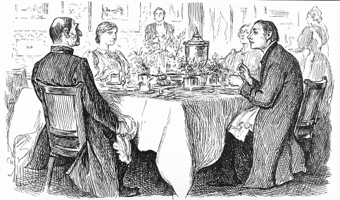 "True Humility" cartoon, by George du Maurier, from Punch November 9, 1895. Origin of phrase Curate's egg: The bishop says "I'm afraid you've got a bad egg, Mr Jones". Apparently trying to avoid offence or curry favor, the curate replies, "Oh, no, my Lord, I assure you that parts of it are excellent!"